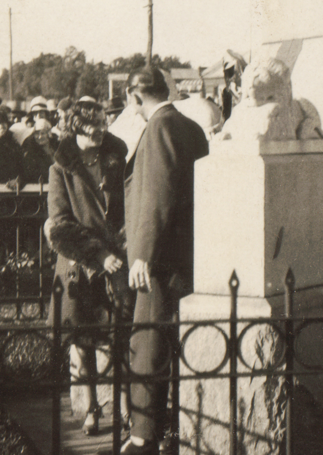 Amy Johnson, aviatrix. Kalgoorlie War Memorial, Western Australia.